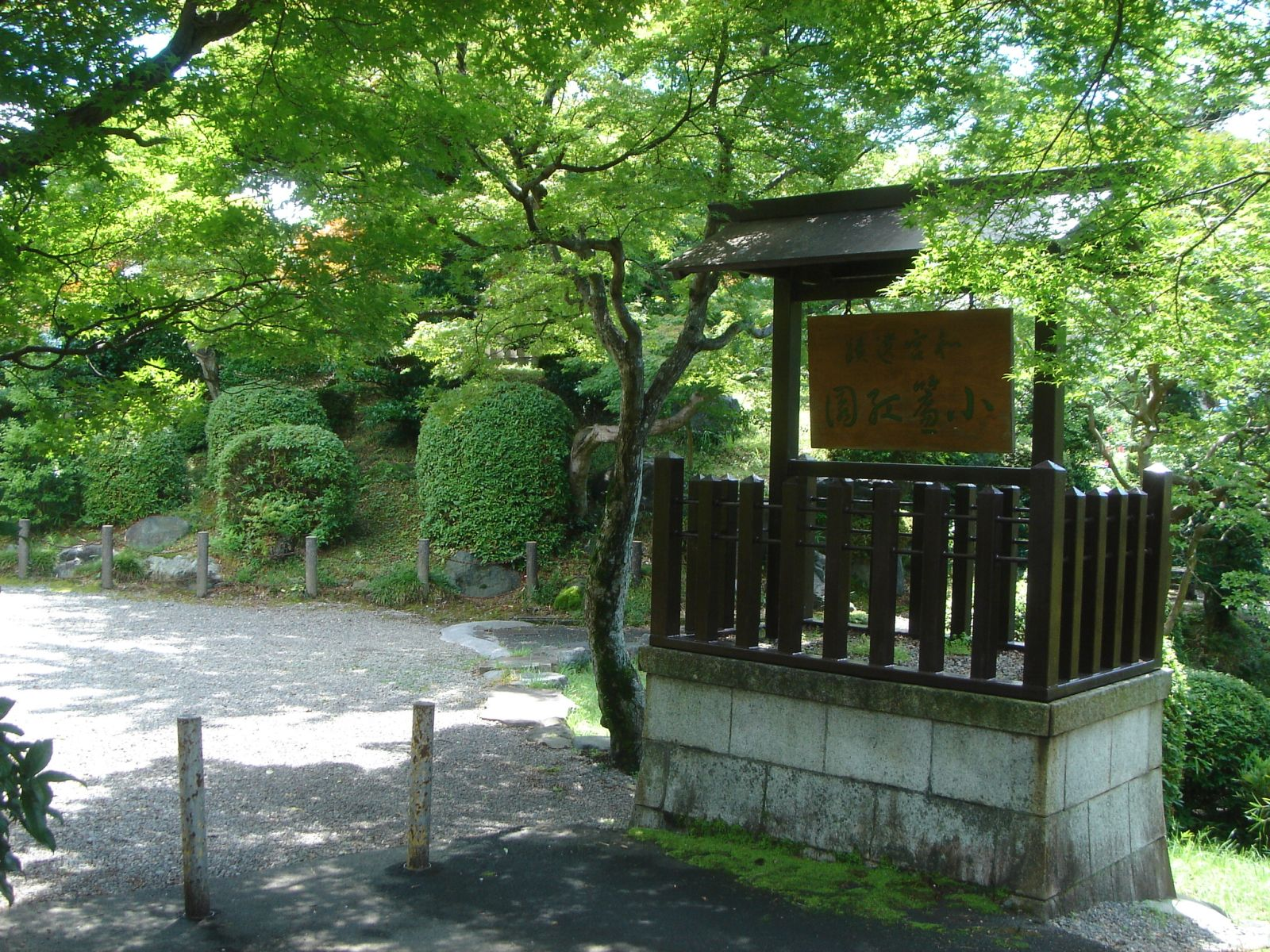 Ozukouen in Mizuho city